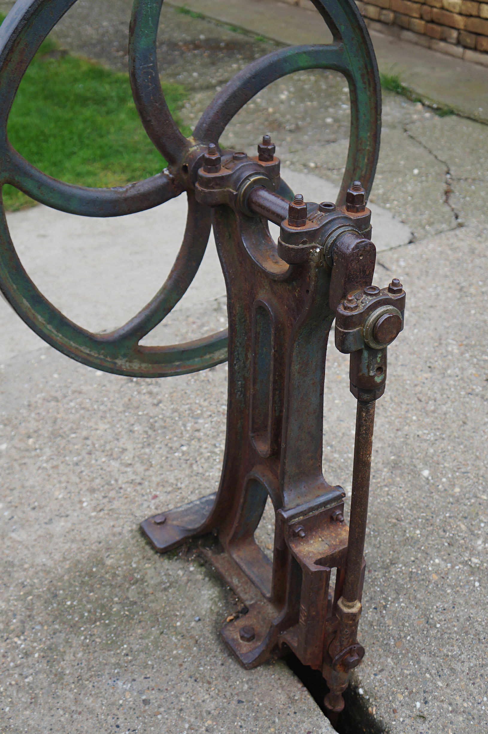 Old artesian well, at streets of Melenci (Hungarian: Melence), Serbia